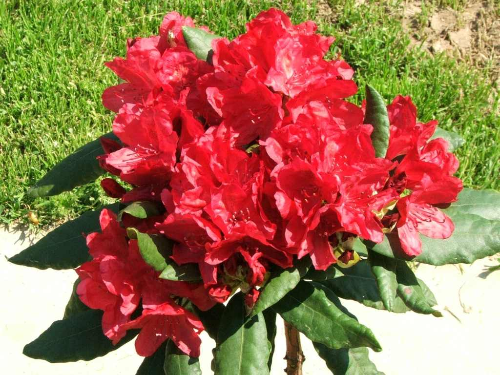 Rhododendron